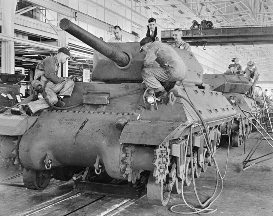 The M-10 "tank destroyer," shown in mass production at General Motors tank arsenal.